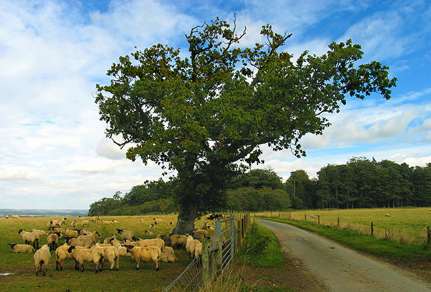 Lane along the West Woodhay Down. This is a view of the lane that leads around the hill with the unnamed copse to the right. This view looks north east.